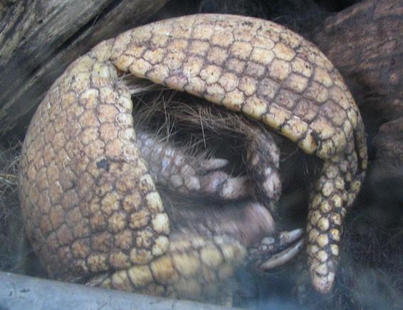 Southern three-banded armadillo at National Zoo - curled up.